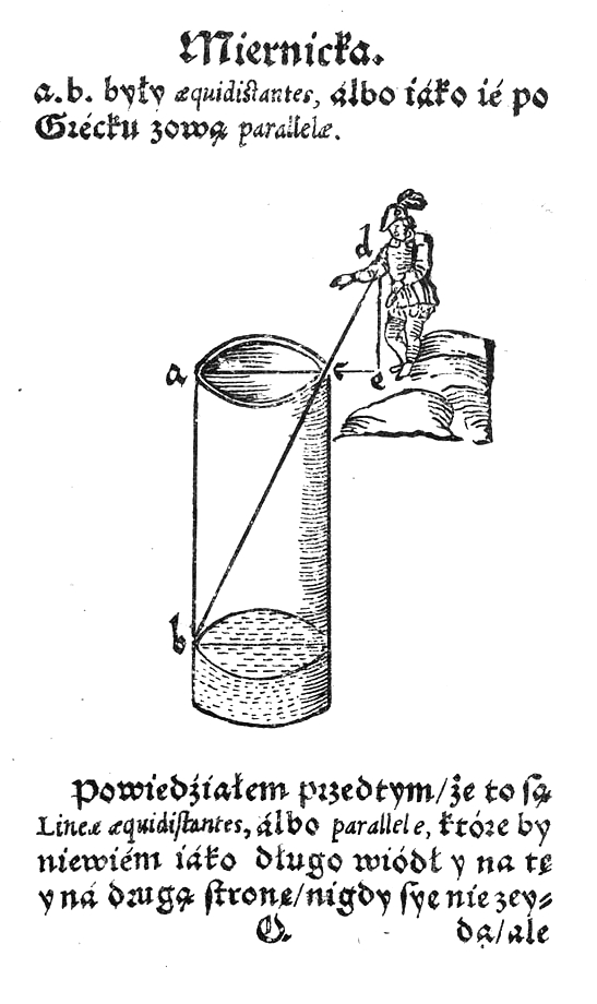 Stanisław Grzepski , "Geometria To iest Miernicka Náuká : po polsku krótko nápisána z Greckich y z Łáćińskich Kśiąg. Teraz nowo wydaná", Kraków : Łázarz Andrysowic wybijał, 1566.